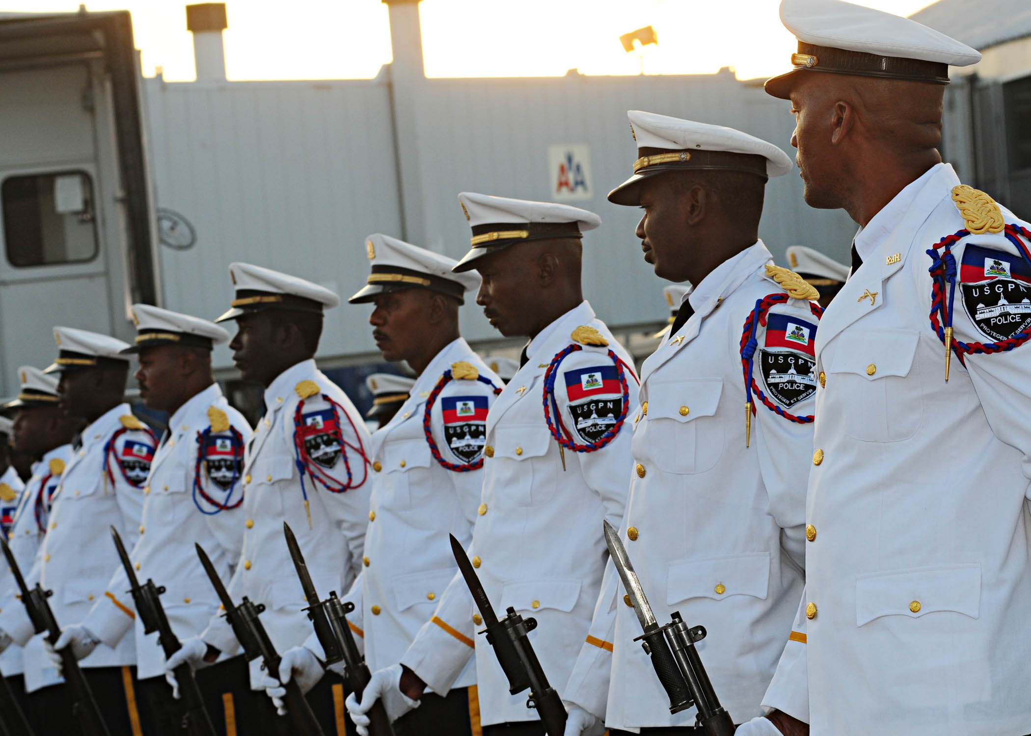 100220-N-9643W-097 PORT AU PRINCE, Haiti (Feb. 20, 2010) Members of the Haitian National Police Force marching band stand at parade rest while awaiting the start of a reception for a Chilean flight crew at Toussaint Louverture International Airport in Port-Au-Prince, Haiti. The U.S. military returned control of the airport to the Haitian government, Feb. 19, after more than a month after the Jan. 12 7.0 magnitude earthquake that cased severe damage in and around Port-au-Prince. (U.S. Navy photo by Mass Communication Specialist 2nd Class Kim Williams/Released)